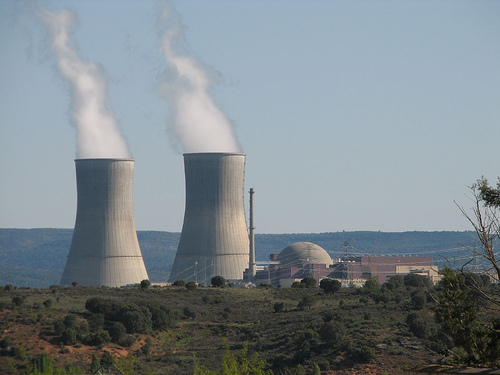 Nuclear power plant of Trillo I, province of Guadalajara, Spain